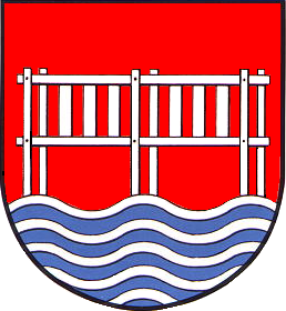 Coat of arms of the Stadt (town) Bredstedt in Schleswig-Holstein, Germany.